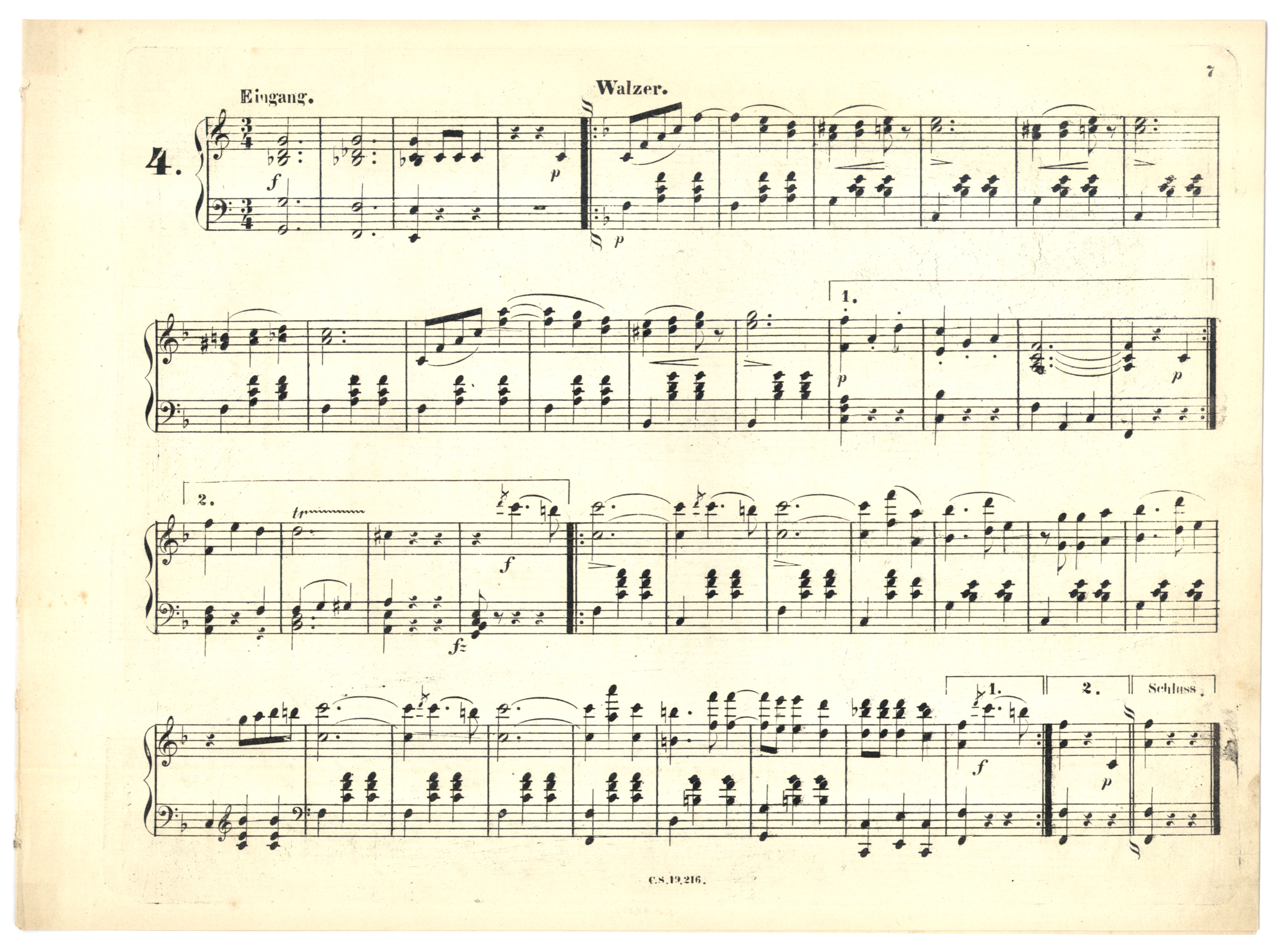 Johann Strauss II. The Blue Danube, 1st ed. by Carl Anton Spina